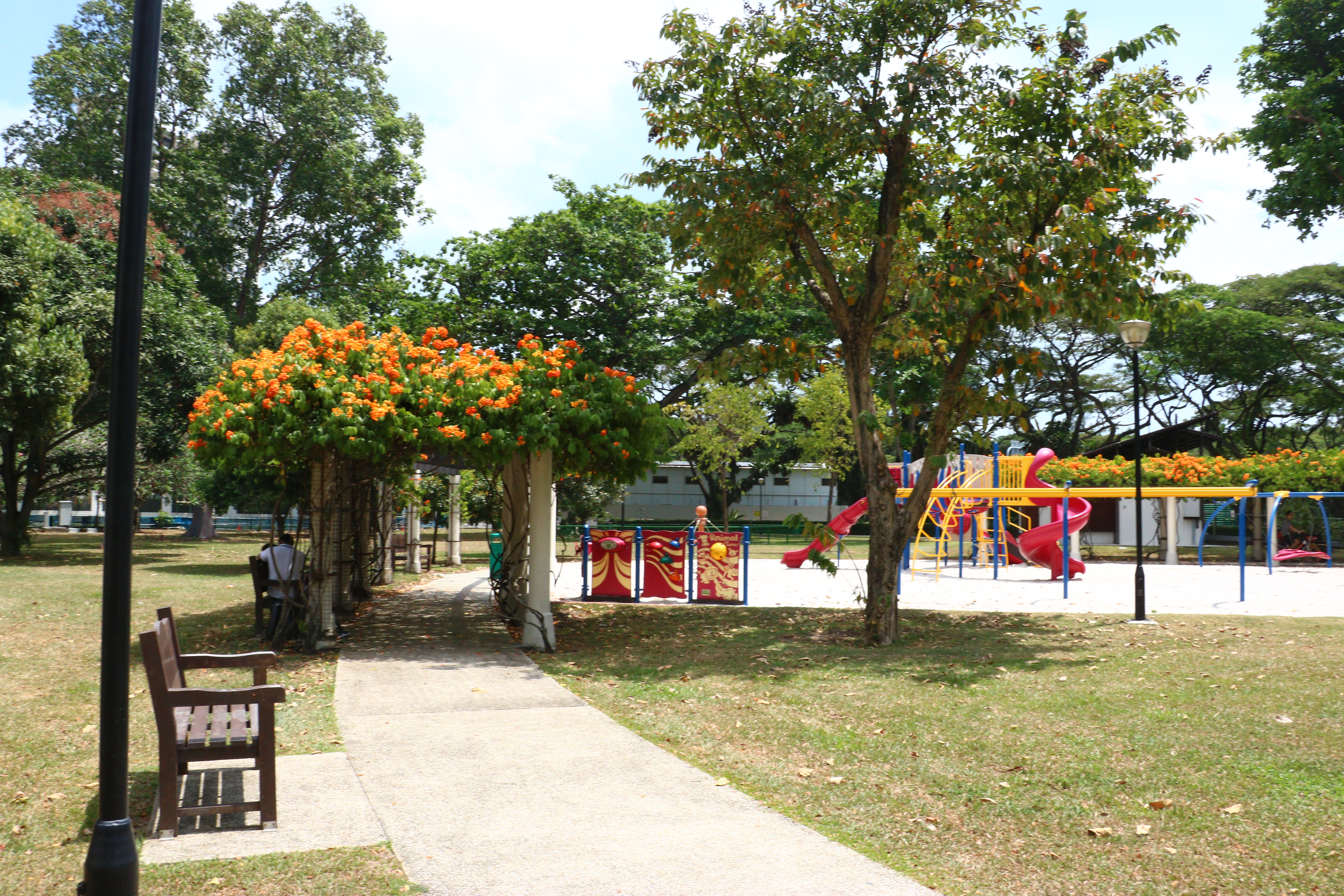 Photo of the playground and pavilions at Katong Park